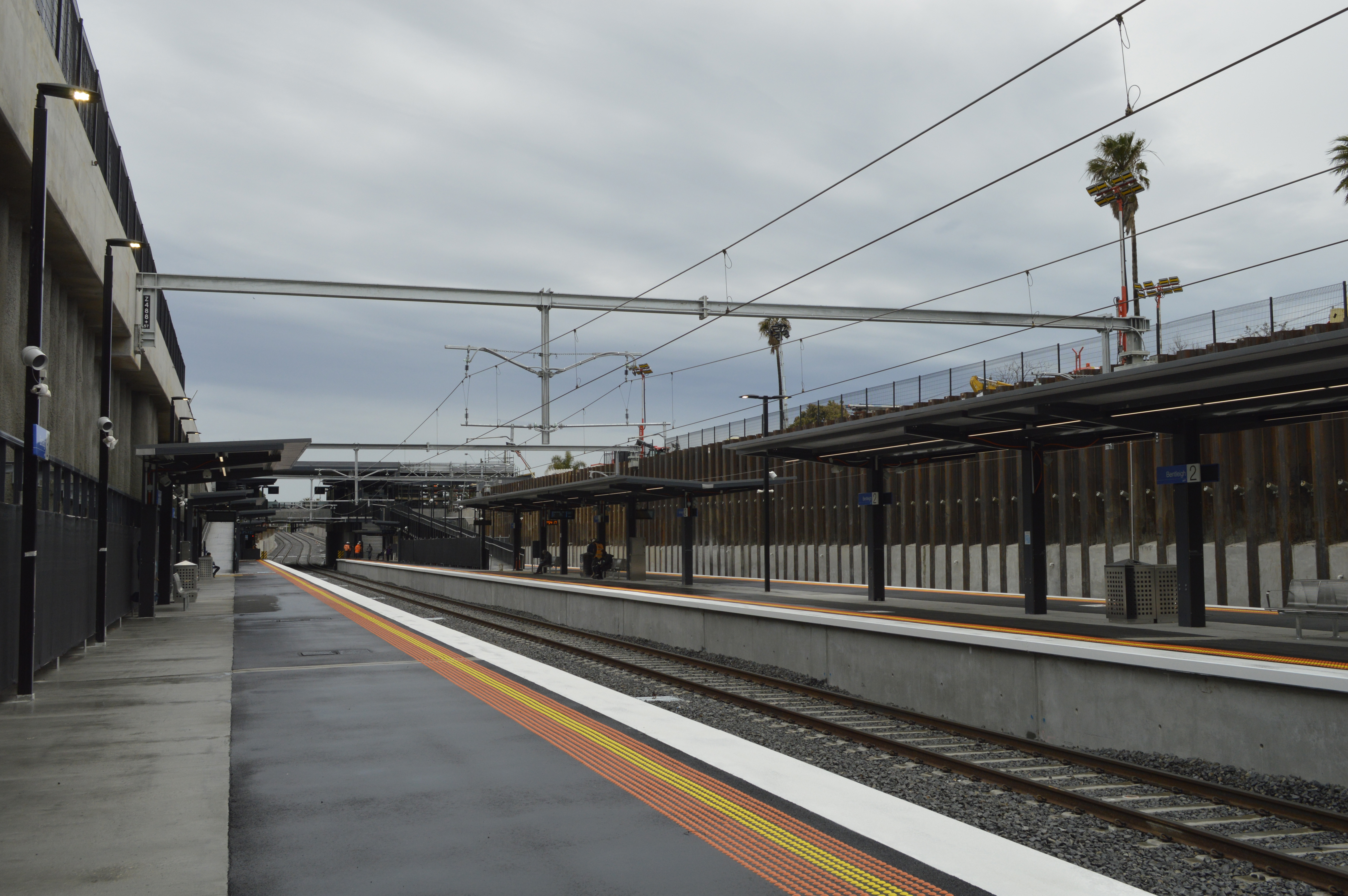 Looking south towards Frankston in August 2016.